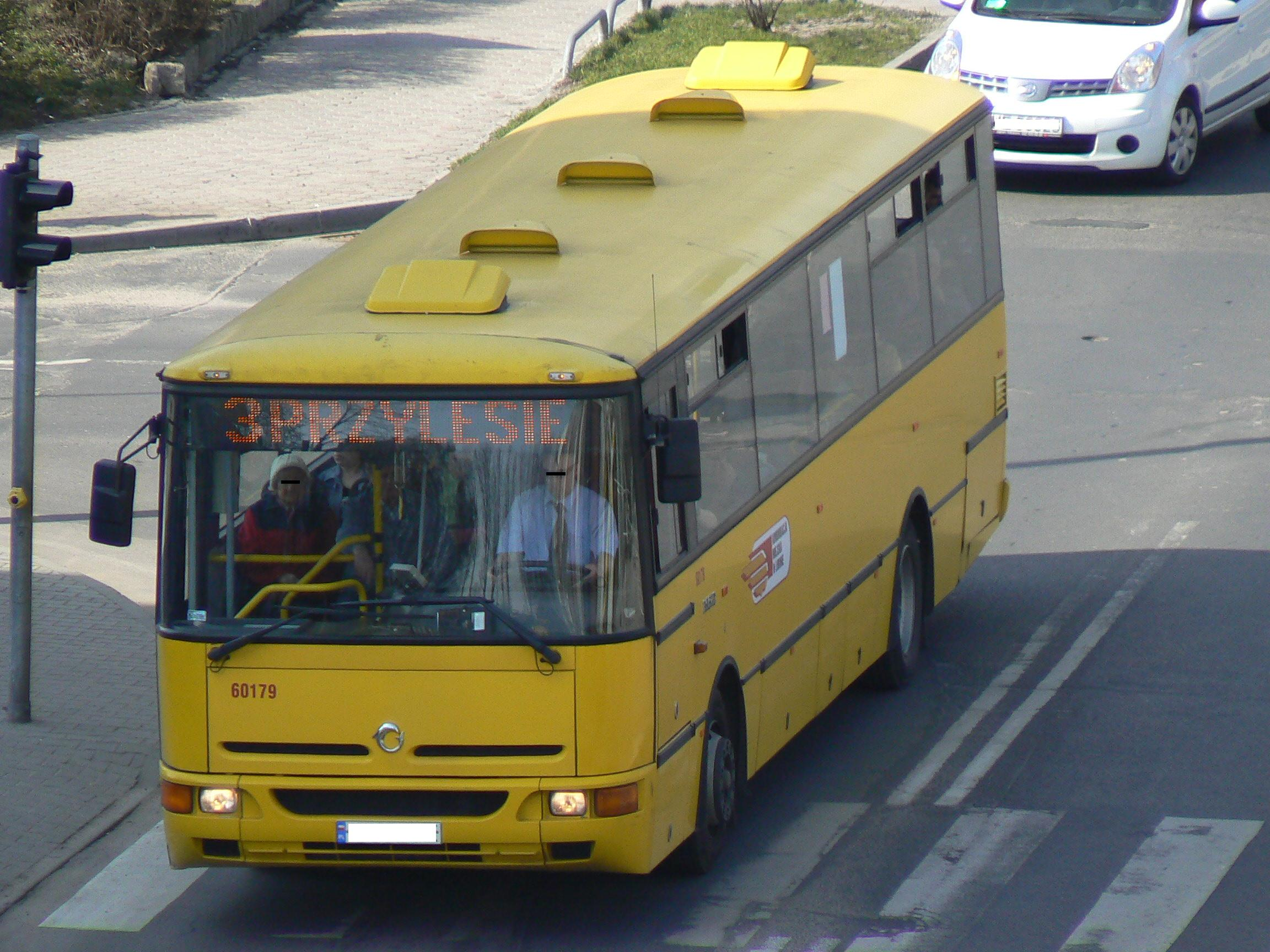 Lubin in Poland - City Transport - Karosa B951E bus (#60179) built 2006, PKS Lubin operator.